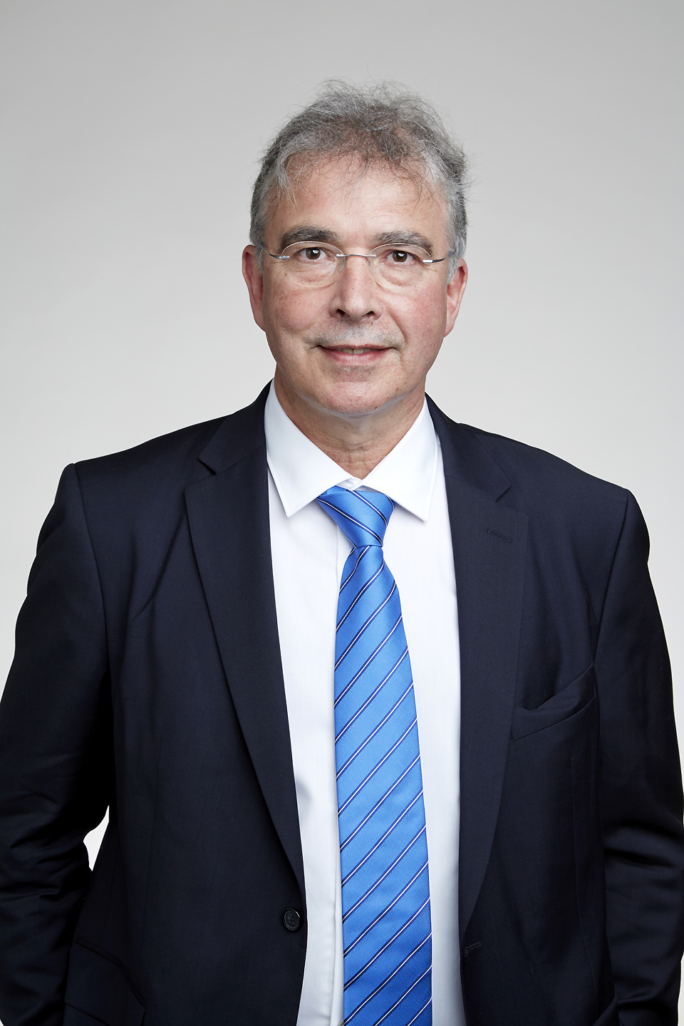 John Philip Burrows FRS is Professor of the Physics of the Ocean and Atmosphere and Director of the Institutes of Environmental Physics and Remote Sensing at the University of Bremen. He is also a Fellow of the Centre for Ecology and Hydrology (CEH), part of the Natural Environment Research Council (NERC). Attribution: The Royal Society